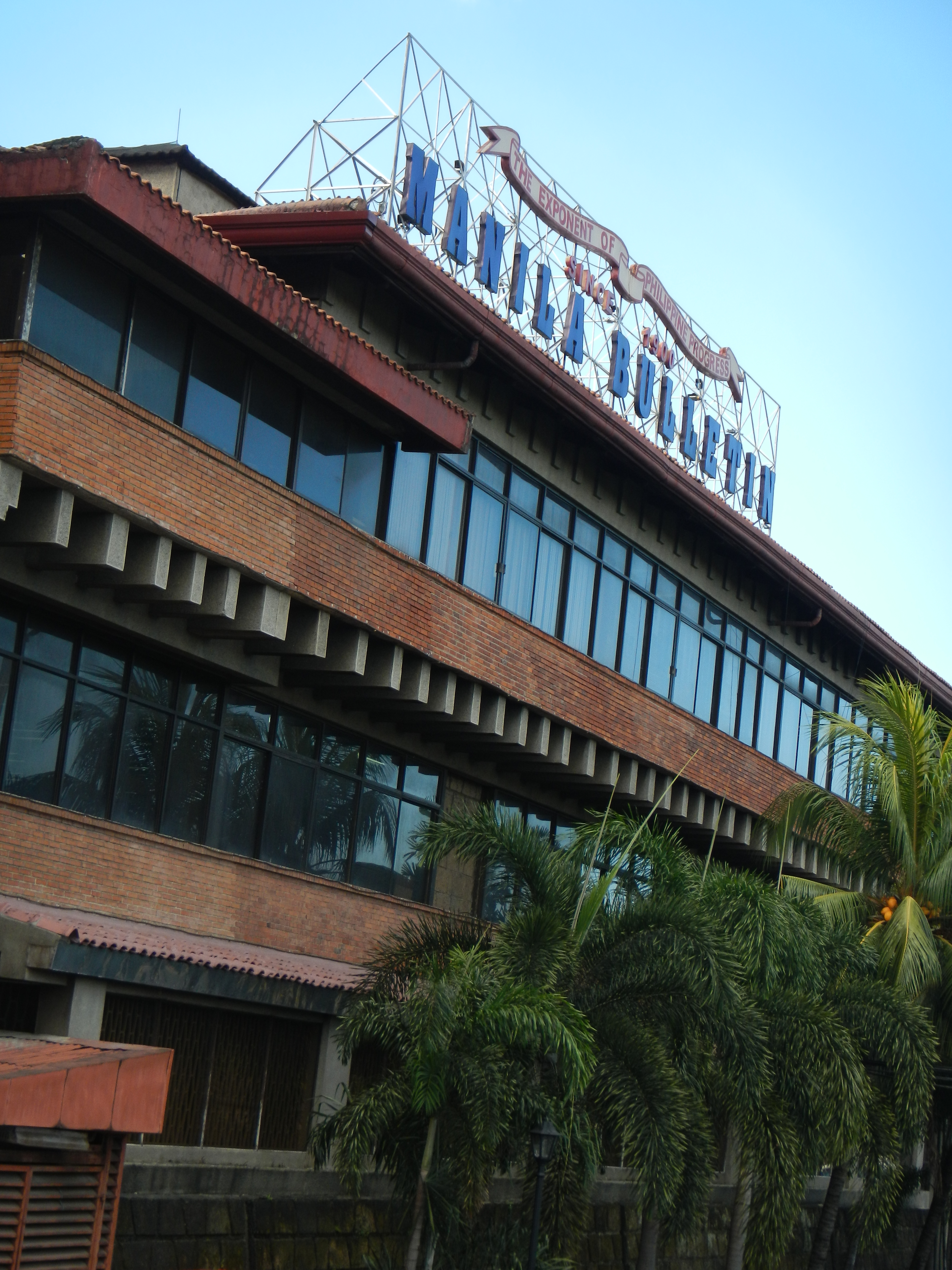 Upload Wizard photos of - the - a) Baluarte de Dilao or San Lorenzo, San Francisco, San Fernando de Dilao, or Dilao built in late 18th century restored since 1983, named after Spanish king Saint Ferdinand III of Castile [1] - Intramuros, Intramuros Golf Club, Intramuros City Walls - Gates of Intramuros [2] Intramuros entrance on Gen. Luna Street, the Bastion of San Diego constructed in 1644, the defensive walls of Intramuros and Muralla Street - Gate facing the south Puerta Real Gardens the original Real Gate (Royal Gate) was built in 1663 at the end of Calle Real de Palacio now General Luna St. and was used exclusively by the Governor-General for state occasions was located west of Baluarte de San Andres and faced the old village of Bagumbayan b) Department of Labor and Employment (Philippines) [3] DOLE Building, Muralla corner General Luna Streets, Intramuros, Manila[4] under Rosalinda Baldoz, Secretary [5] [6] was founded on December 8, 1933 via the Act No. 4121 by the Philippine Legislature. It was renamed as Ministry of Labor and Employment in 1980. The agency was renamed as a Department after the 1986 EDSA Revolution in 1986 Secretary of Labor and Employment (Philippines)[7] Fernanda Salcedo Balboa b. October 8, 1902 - d. May 24, 1999, marker, a social worker and one of the most civic-minded women of the Philippines, [8] was the Founder of the Reapers' Club in Tayug, Pangasinan. beside it is the Manila Bulletin[9] List of Cultural Properties of the Philippines in Metro Manila [10] List of historical markers in the Philippines[11].